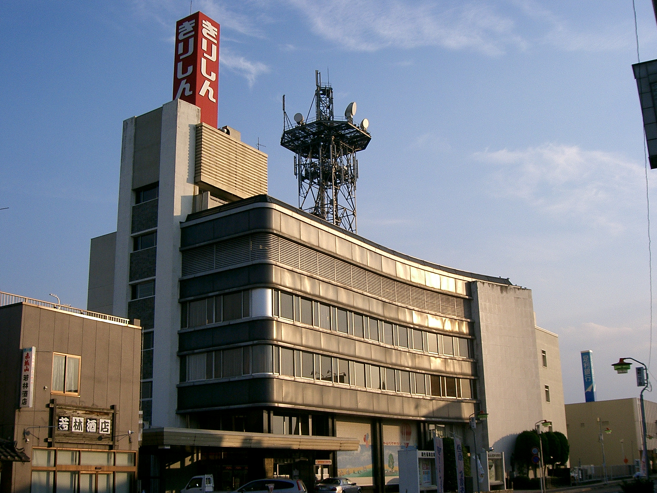 Head office of Kiryu Shinkin Bank